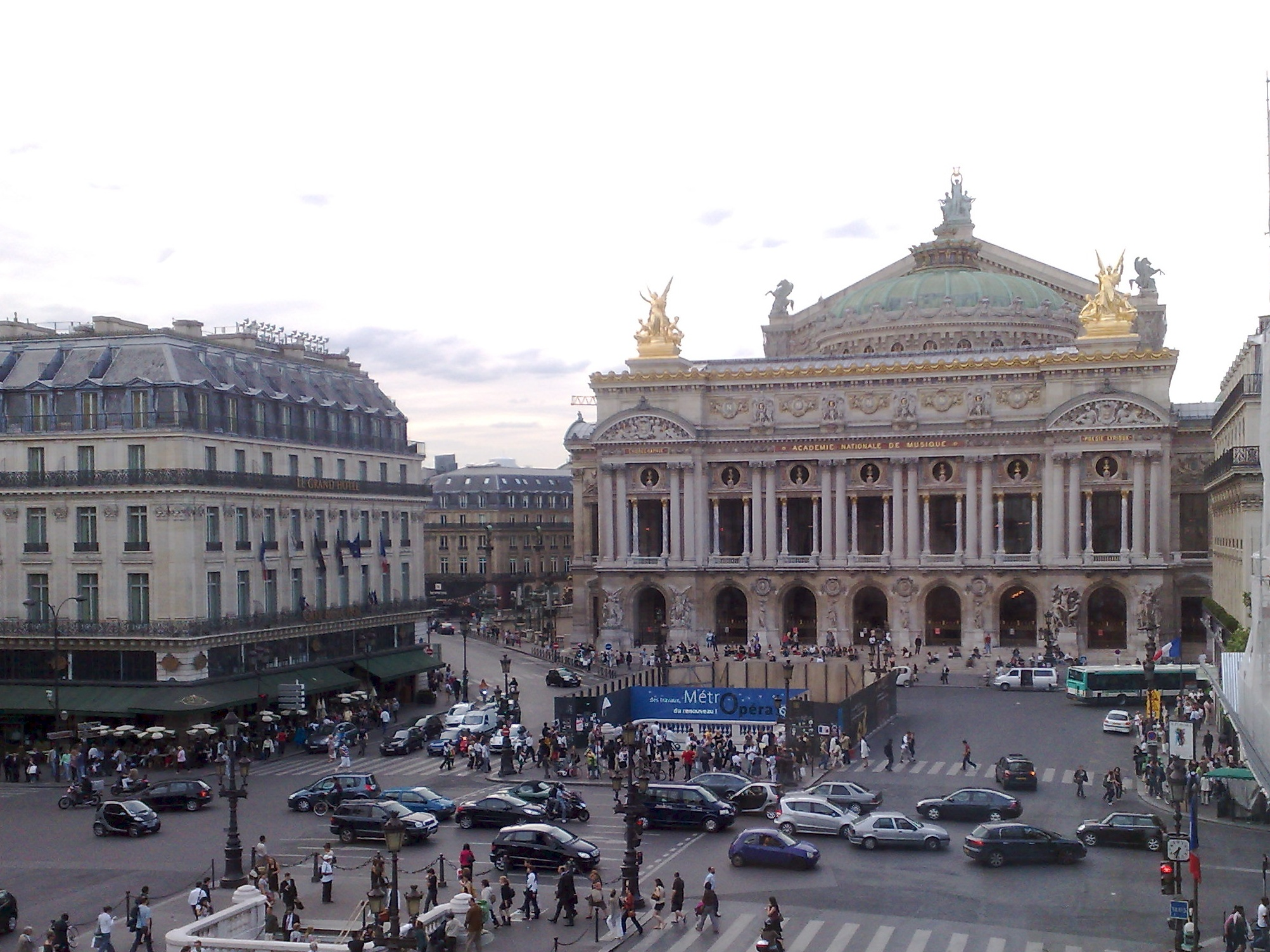 Palais Garnier (Paris, FRANCE)